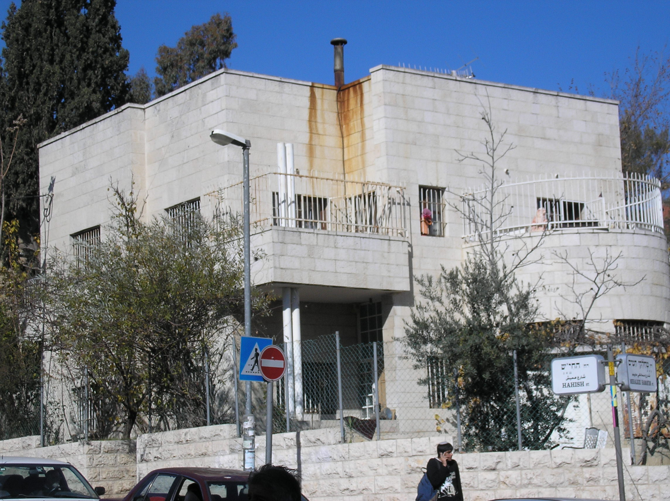 A building in the place of Semiramis Hotel